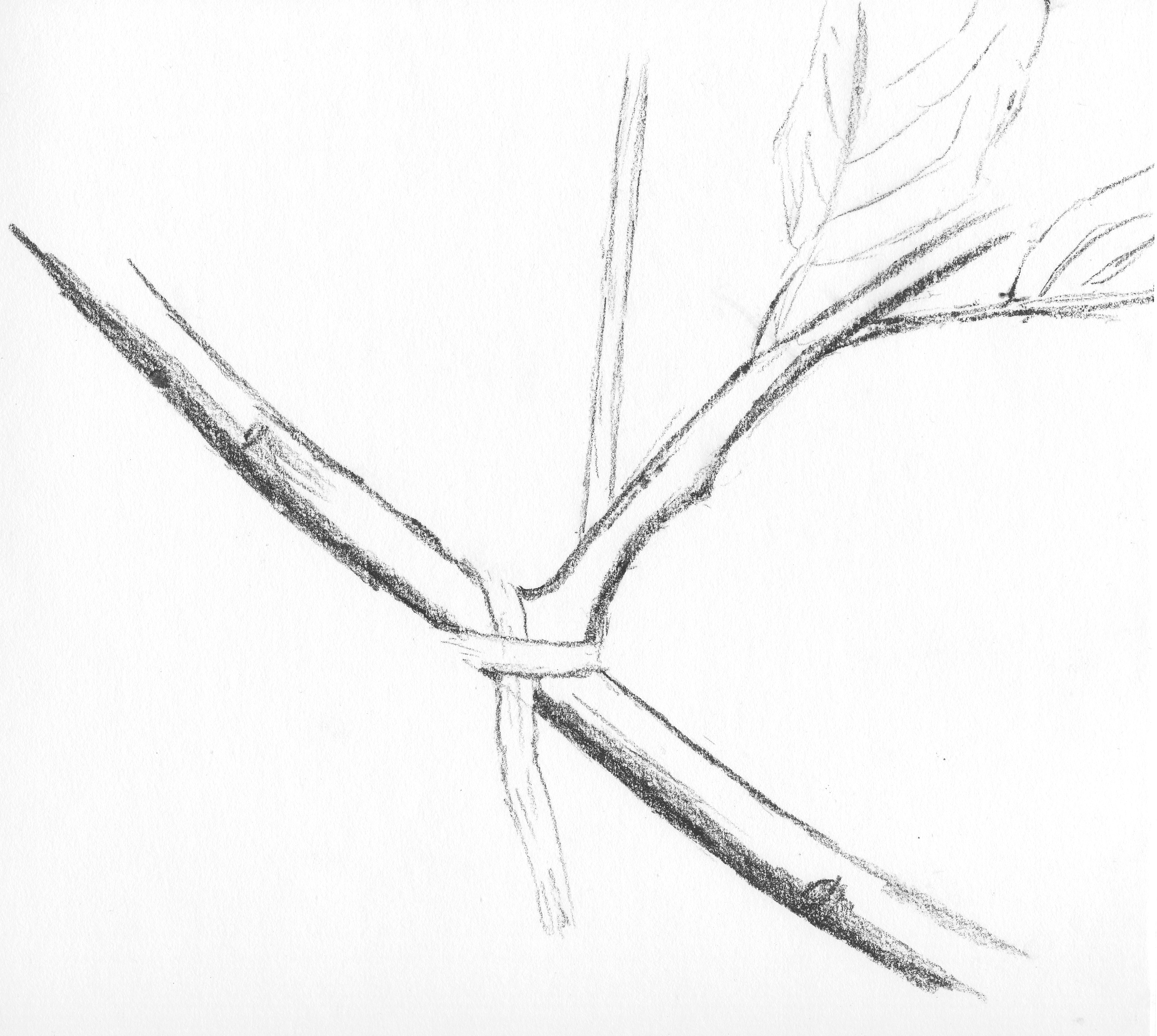 Knot for fixating a branch bound up with bast.